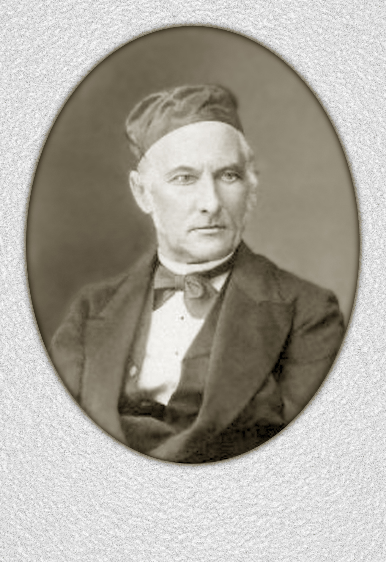 Pastor August Ludwig Immanuil Körber